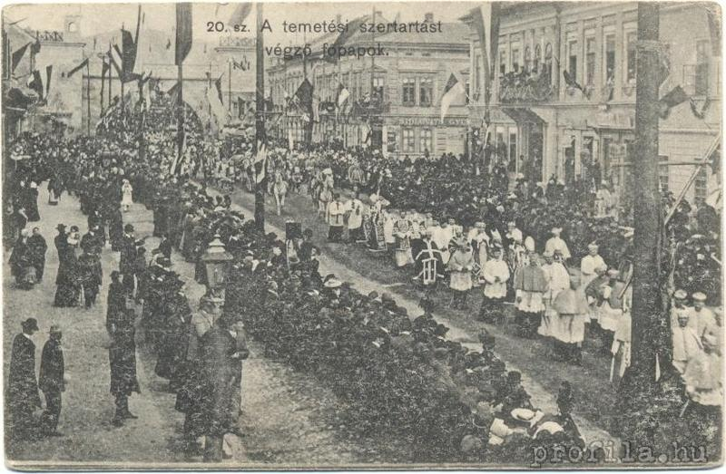 Rákoci burial in Košice 1906